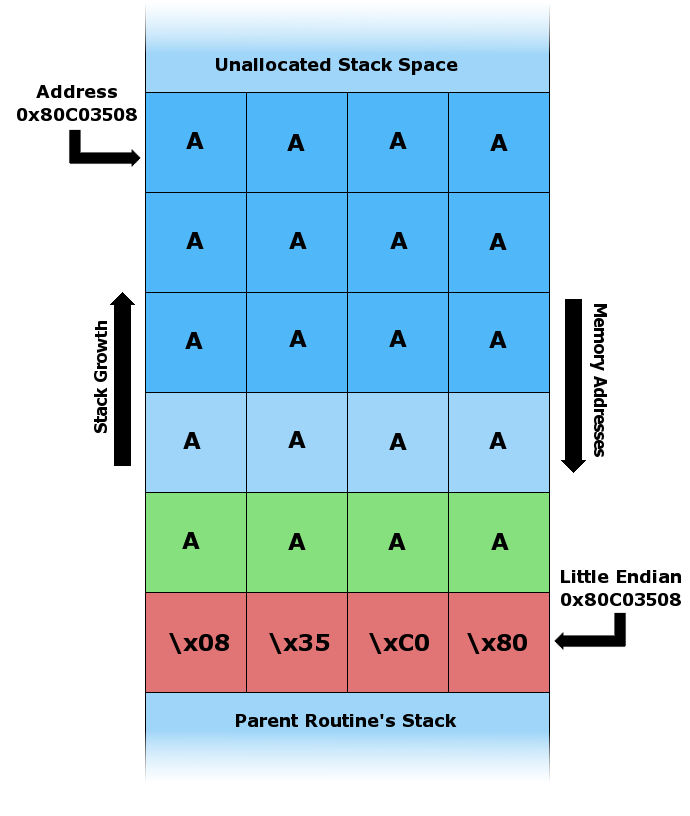 Image showing program stack after buffer overflow